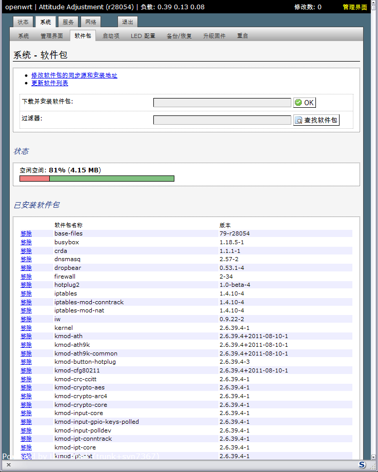 Screen shot of the LuCI web interface for OpenWrt; software selection; simplified Chinese